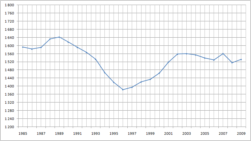 This diagram shows changes in population of Fuglafjørður since 1985 for 2009. It's made in Microsoft Excel 2007 program.